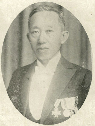 藍高川 (Nâ Ko-chhoan)